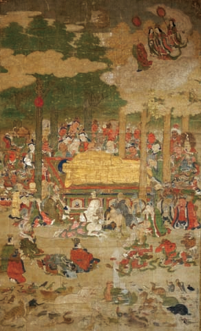 Buddha's Parinirvana, Suo Kokubunji, Hofu, Yamaguchi, Japan